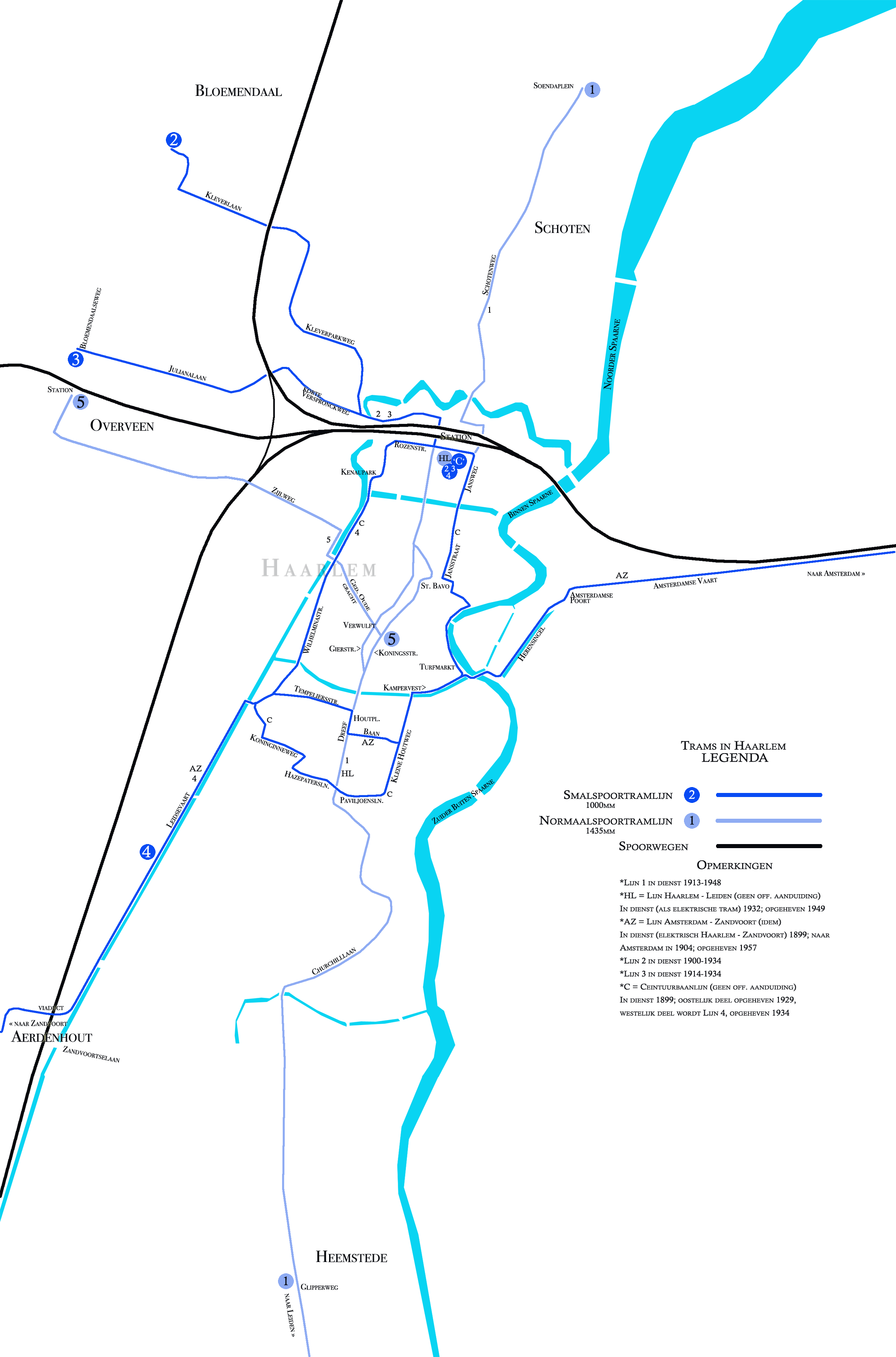 Tram routes in Haarlem, the Netherlands